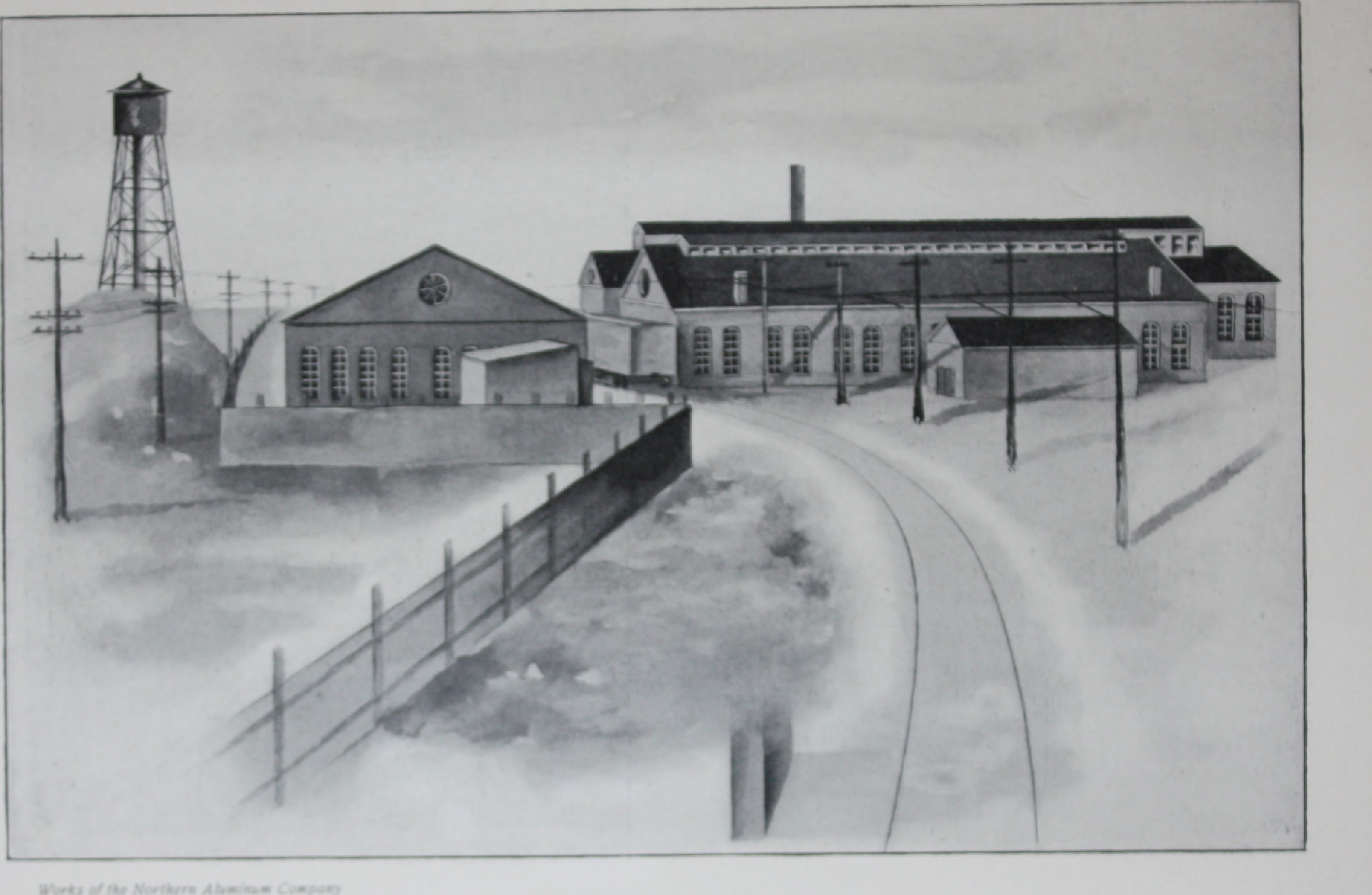 "Works of the Northern Aluminium Company". In Shawinigan Falls, Quebec, Canada. Early 20th century. (Site later better known as the Plant number 1 of the Alcan company.) Title: The Shawinigan Water and Power Company : its property and plant. Year: 1907 (1900s) Authors: The Shawinigan Water And Power Company Subjects: house plans -- catalogs domestic architecture -- catalogs roofing -- catalogs Division 07 steep slope roofing shingles and shakes asphalt shingles Publisher: The Shawinigan Water and Power Co. Text Appearing Before Image: Machinery in pulp Mill.—Paper Machine Wet-Pulp MachinesWood Grinders Text Appearing After Image